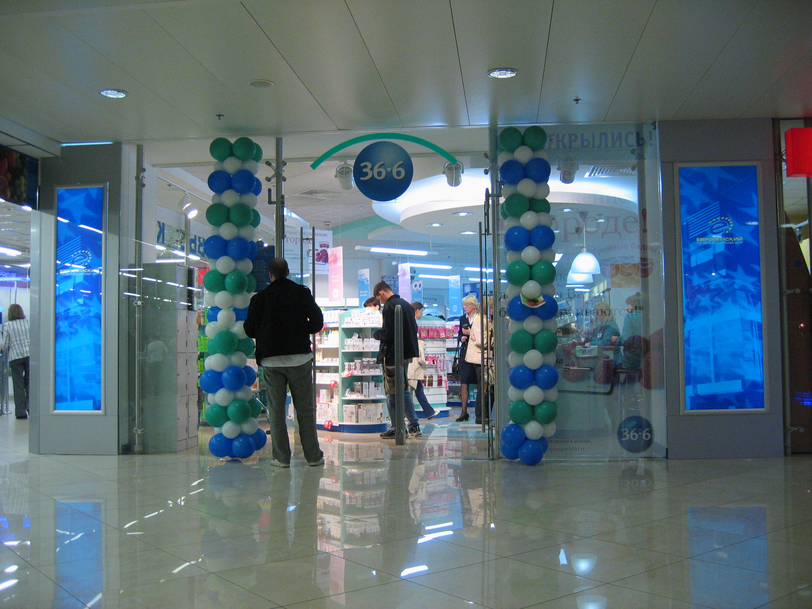 A 36,6 drugstore in Moscow